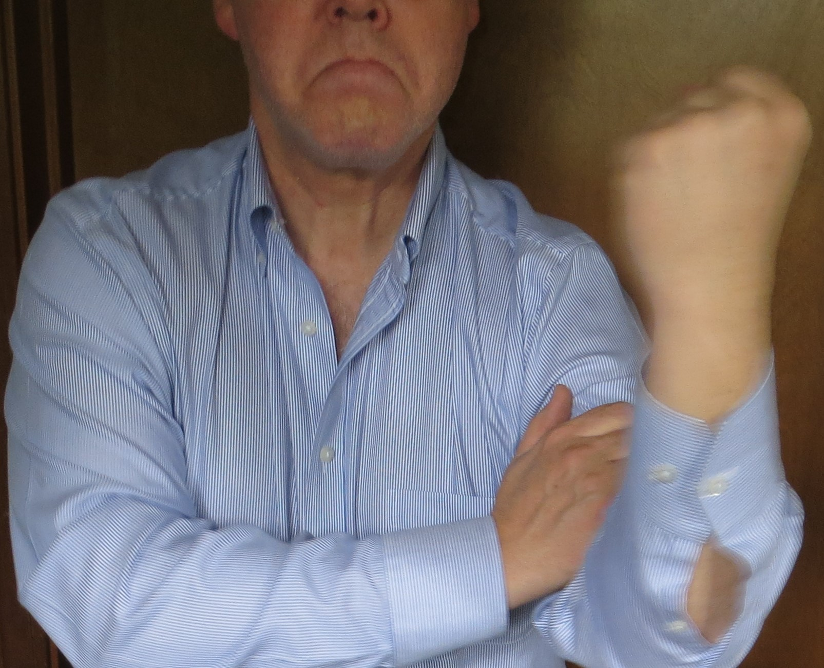 A photo of a man using the bras d'honneur gesture